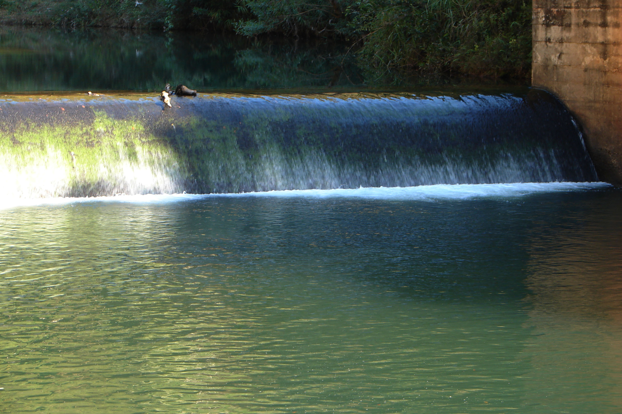 Represa pocinho Raposos